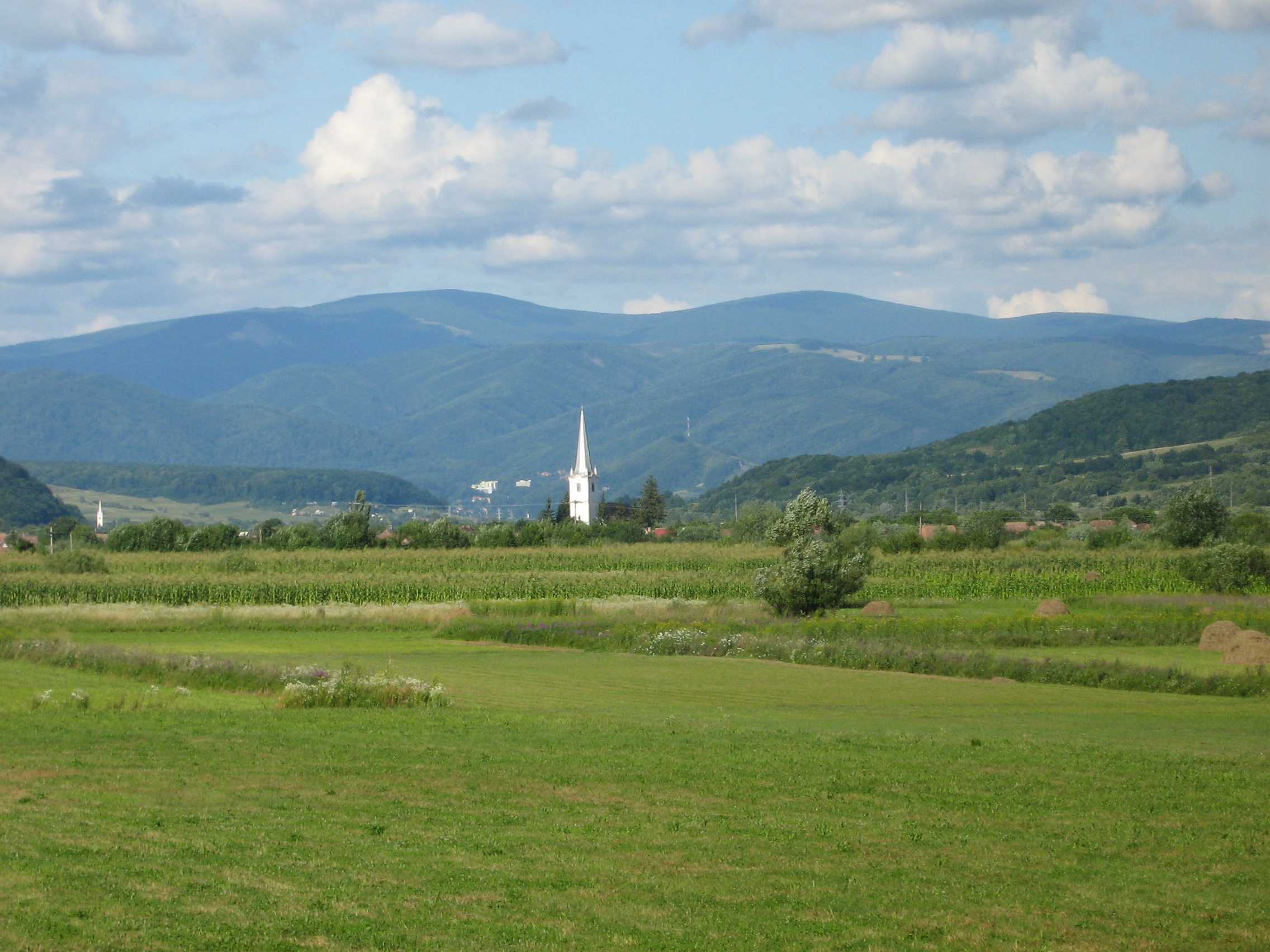 Valley of the Tarnava Mica river, with the Ghiurghiului Mountains in the background